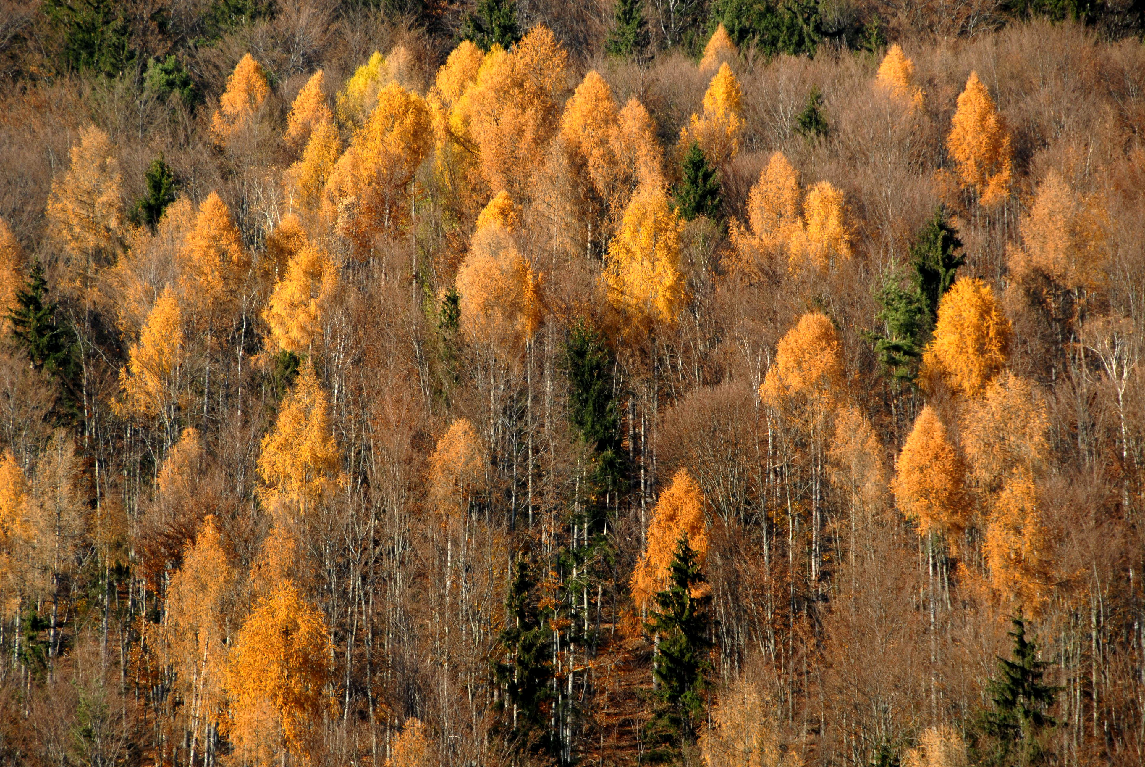 Autumnal larch forest on the mount Skarbin in the community of Ebenthal in Carinthia, Austria